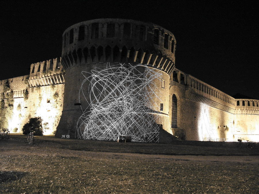 Maurizio Bolognini's interactive installation (CIMs series), Rocca sforzesca, Imola